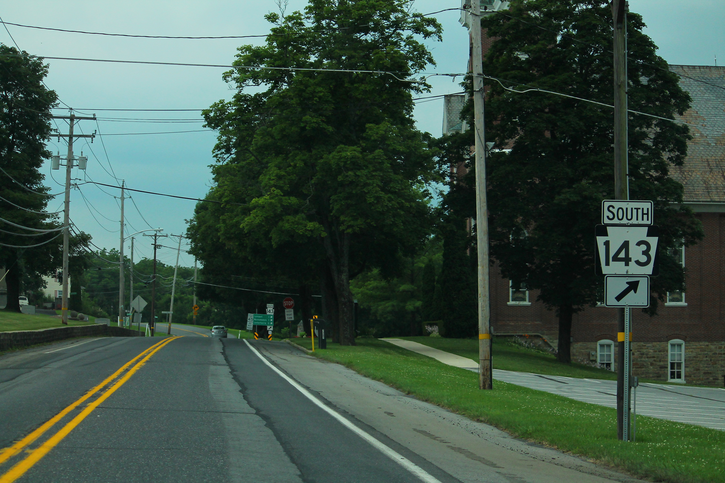 PA143sRoadSign